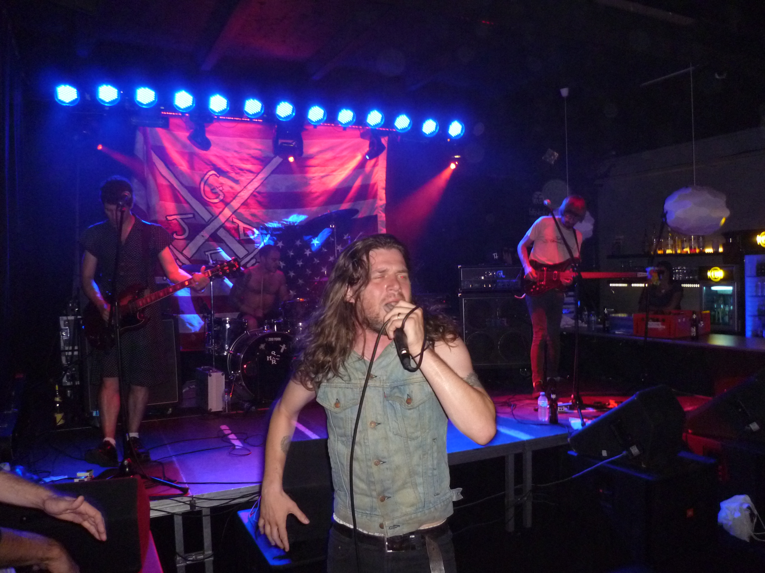 Gay for Johnny Depp live at the Kleiner Klub Saarbrücken